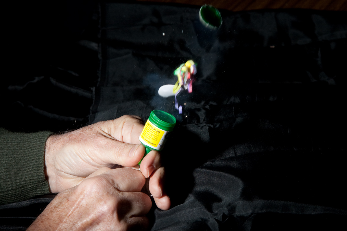 Better shot of the party popper